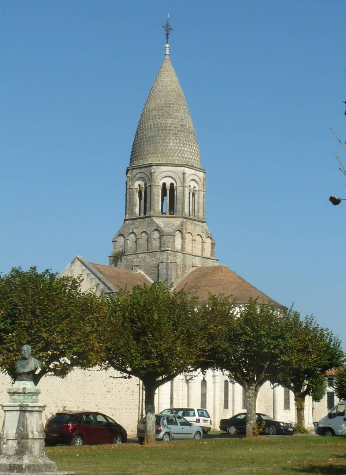 church of Montbron, Charente, SW France